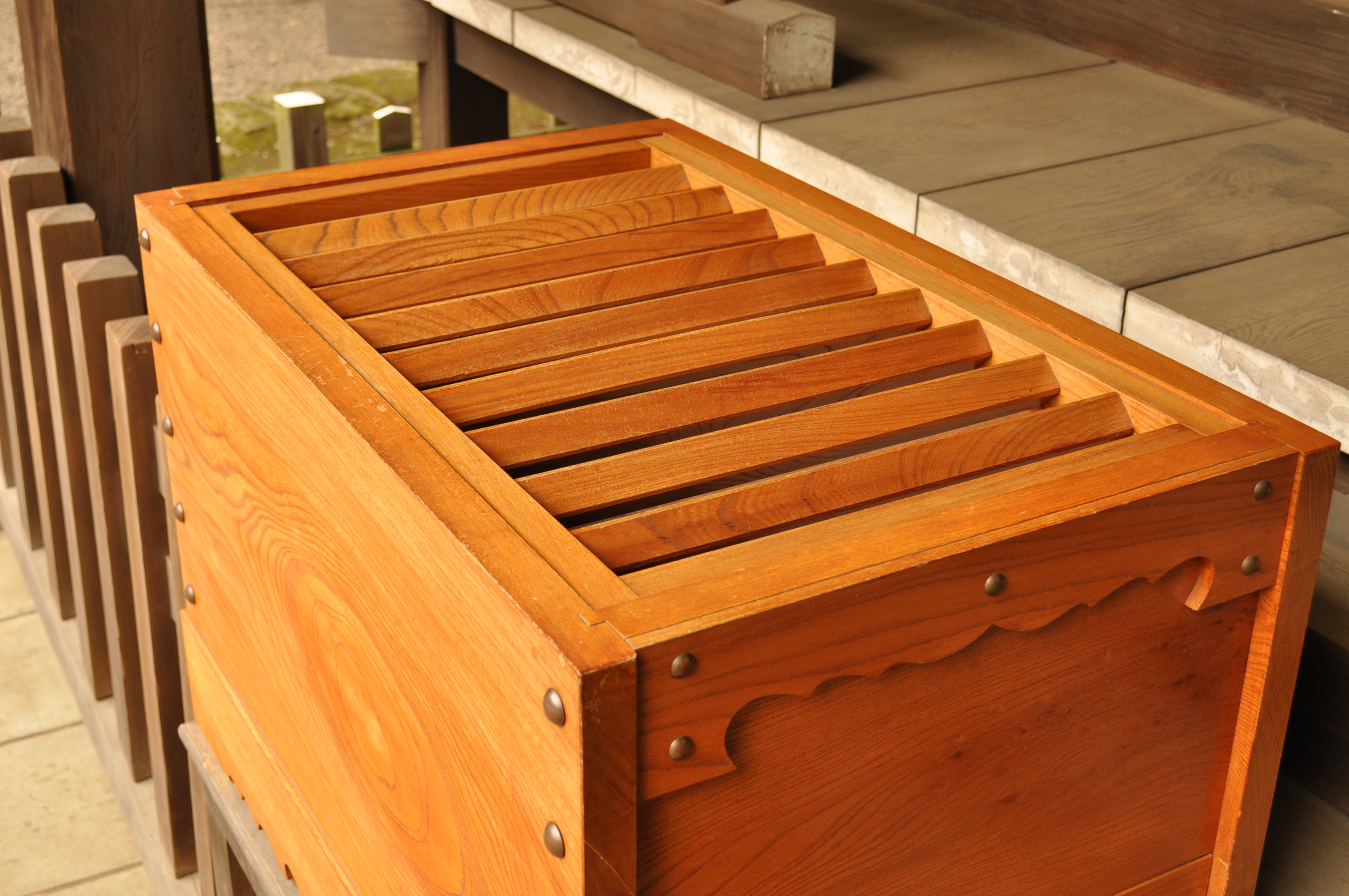 Donation offers "Saisen-bako"